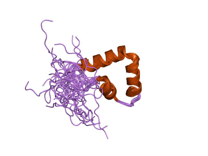 Cartoon representation of the molecular structure of protein registered with 2dii code.